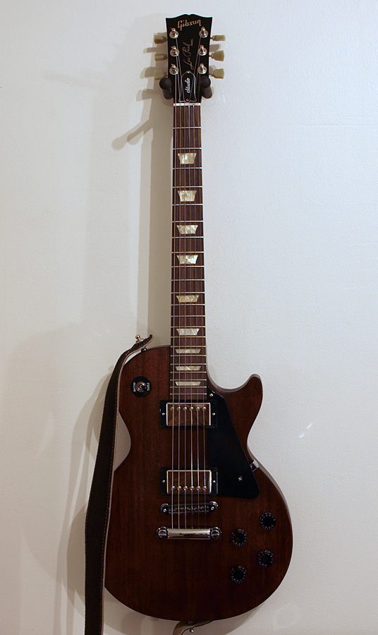 Gibson Les Paul Studio Vintage Mahogany, worn brown finish, made in 2008, with Schaller security locks and a brown leather strap